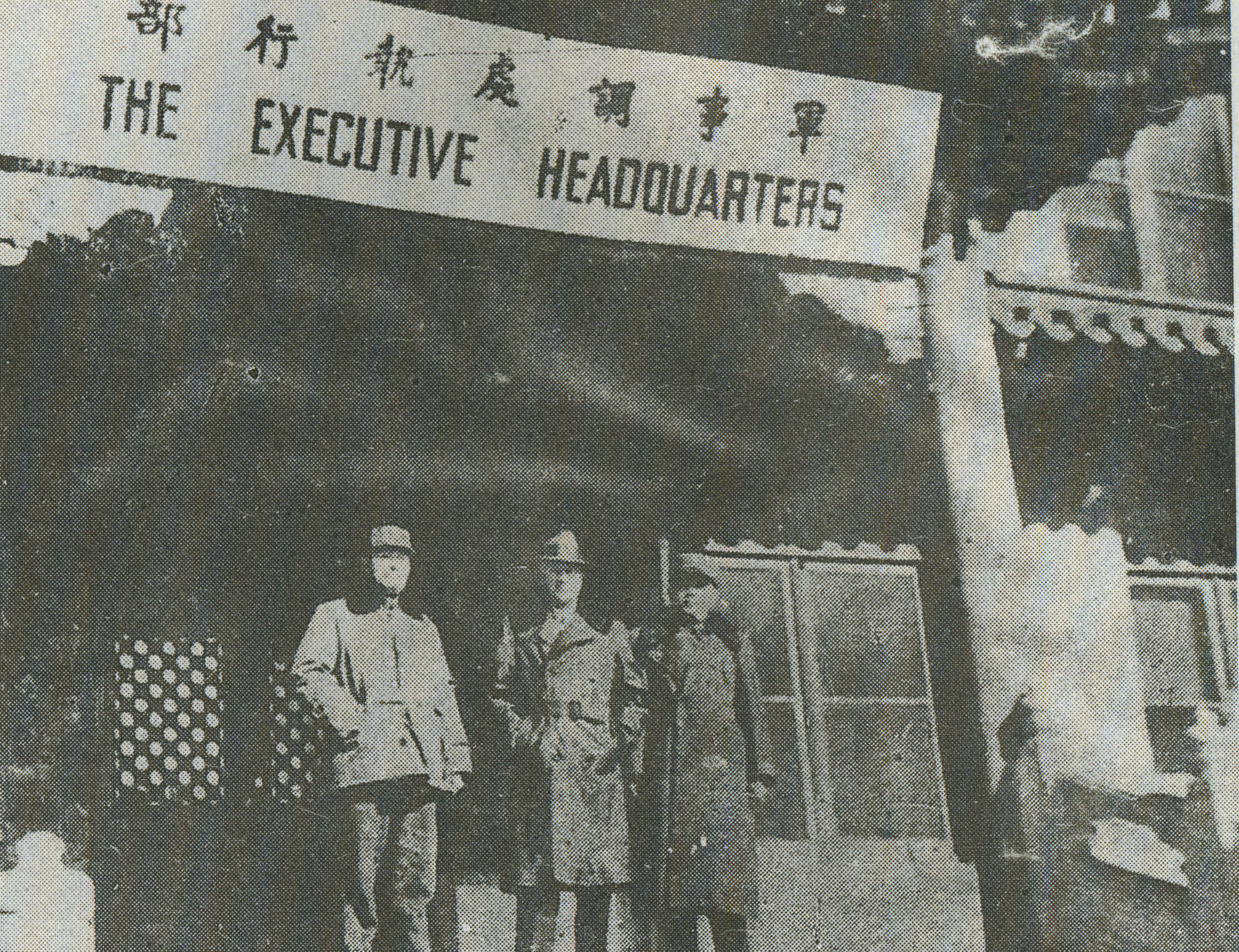 Executive Headquarters in Peking in 1946